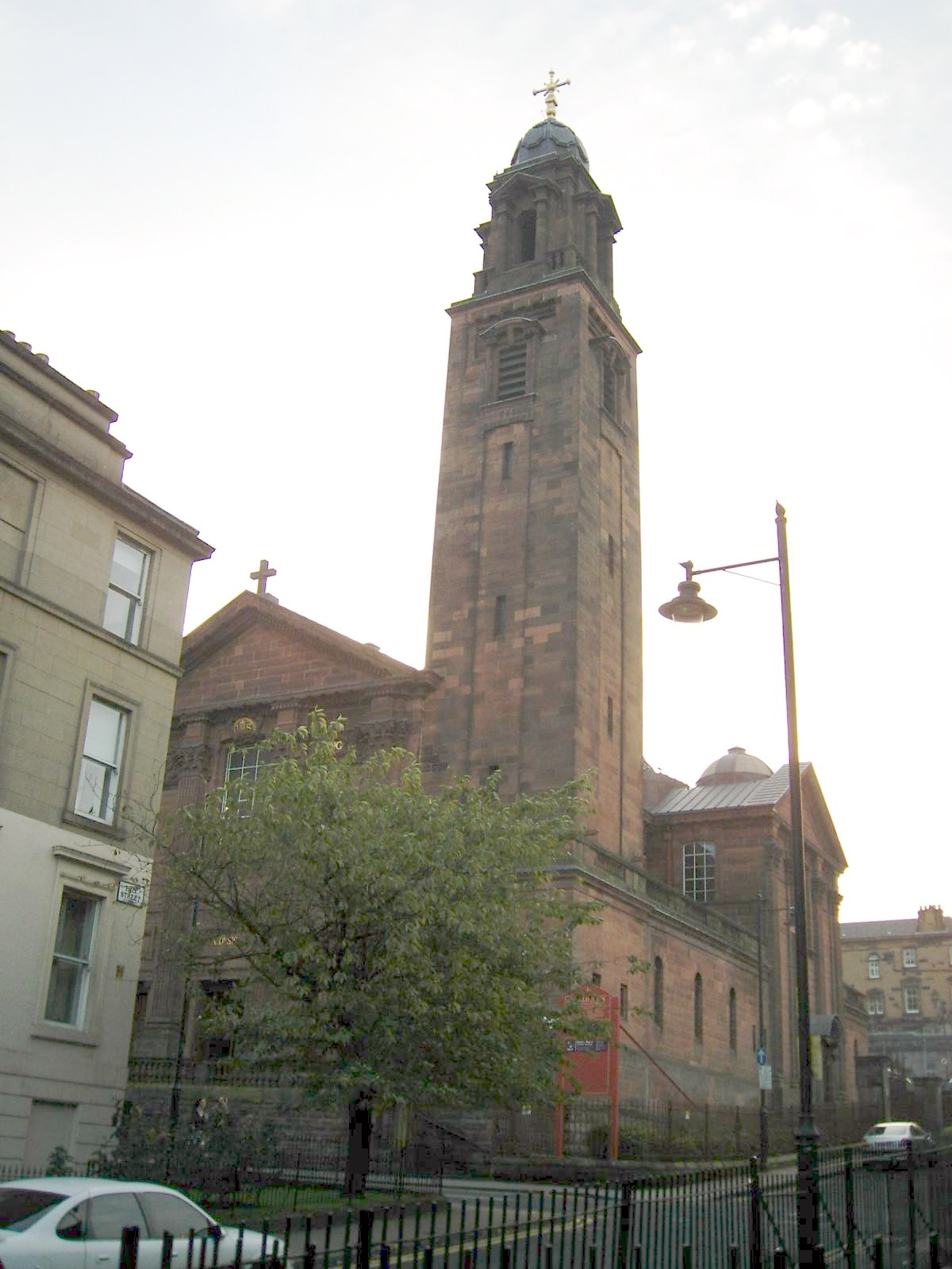 St Aloysius catholic church, Garnethill, Glasgow, Scotland. Made by User:Twid on 16 October 2005.